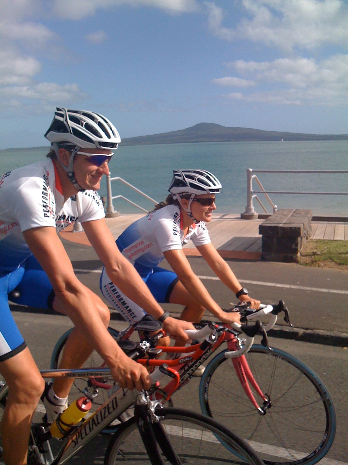 Cyclists on Tamaki Drive. One of the busiest cycling routes in Auckland, there are often conflicts between other road users and cyclists on this road, as well as a relatively high number of cycling accidents. Motorists often feel cyclists should use the cycle path (seen in the back, note substandard width and directly located next to narrow footpath seeing much pedestrian traffic), while pedestrians feel cyclists should not cycle (especially not at any speed) on the path. Photo: Team Performance, 2009.